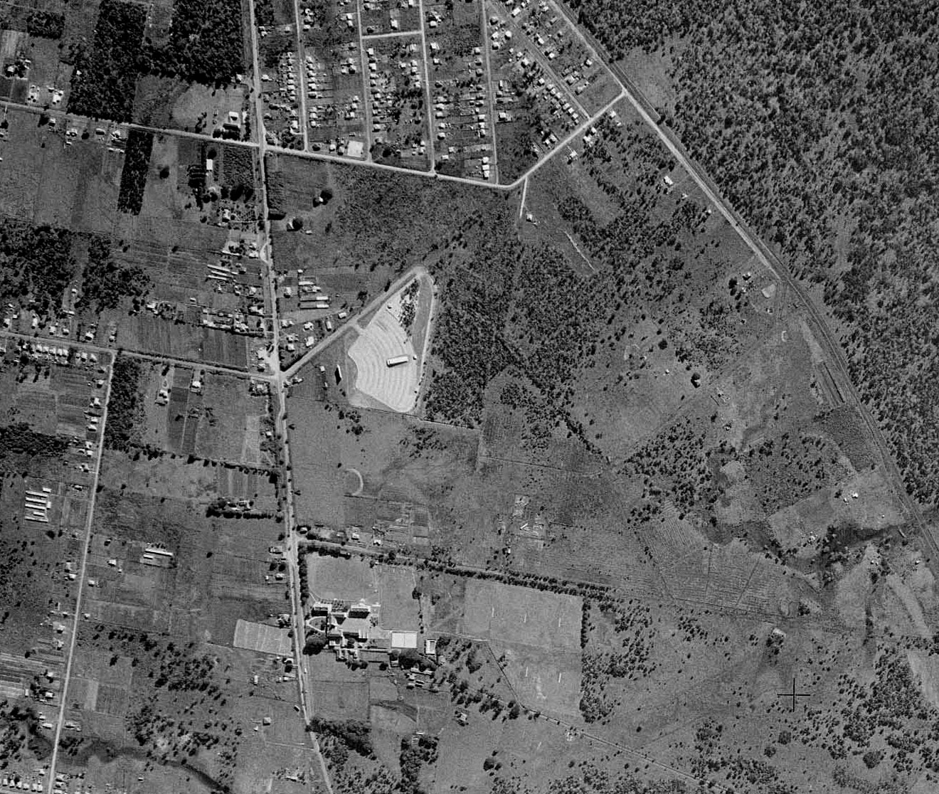 Boondall Drive-In May 1958. (St Joseph's Nudgee College at bottom of image). (use of aerial Images was approved by the Department Natural Resources and Mines, Queensland)